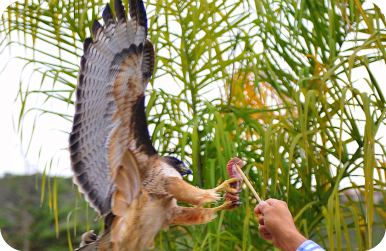 This image is from and must be given a attribution if used. I, the owner of the photo and the website site giver permisson to be used on any website as long as a followed link is given. I am the sole owner and the photo belongs to me. Please see proof of this at under the section titled 'Image copyright'